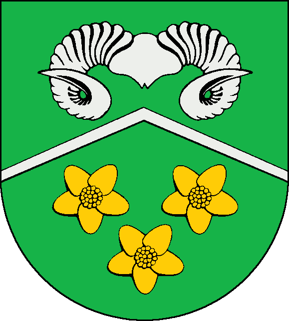 Coat of arms of the municipality Ramstedt in Schleswig-Holstein, Germany.